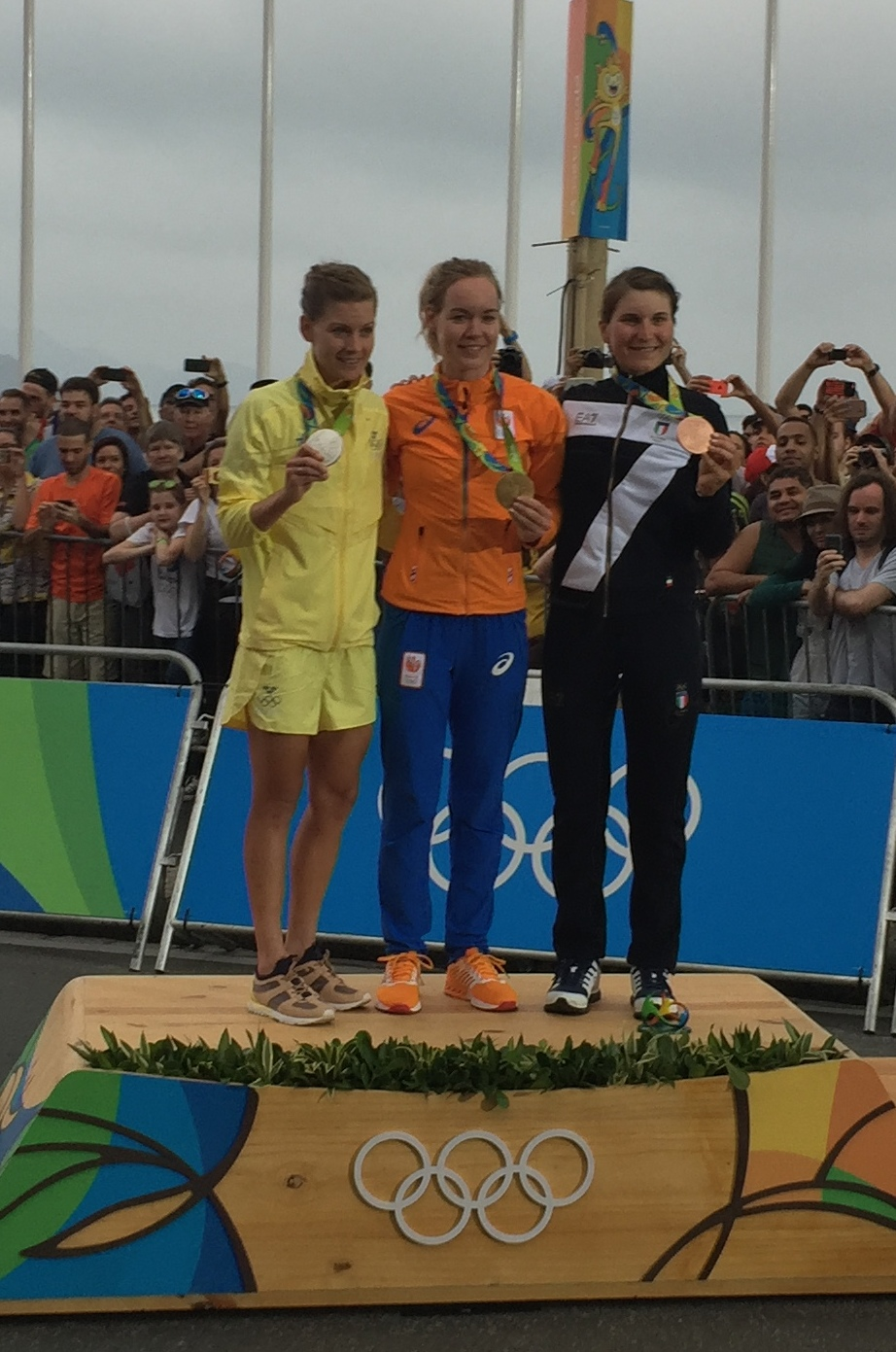 Rio 2016 - Women's road race